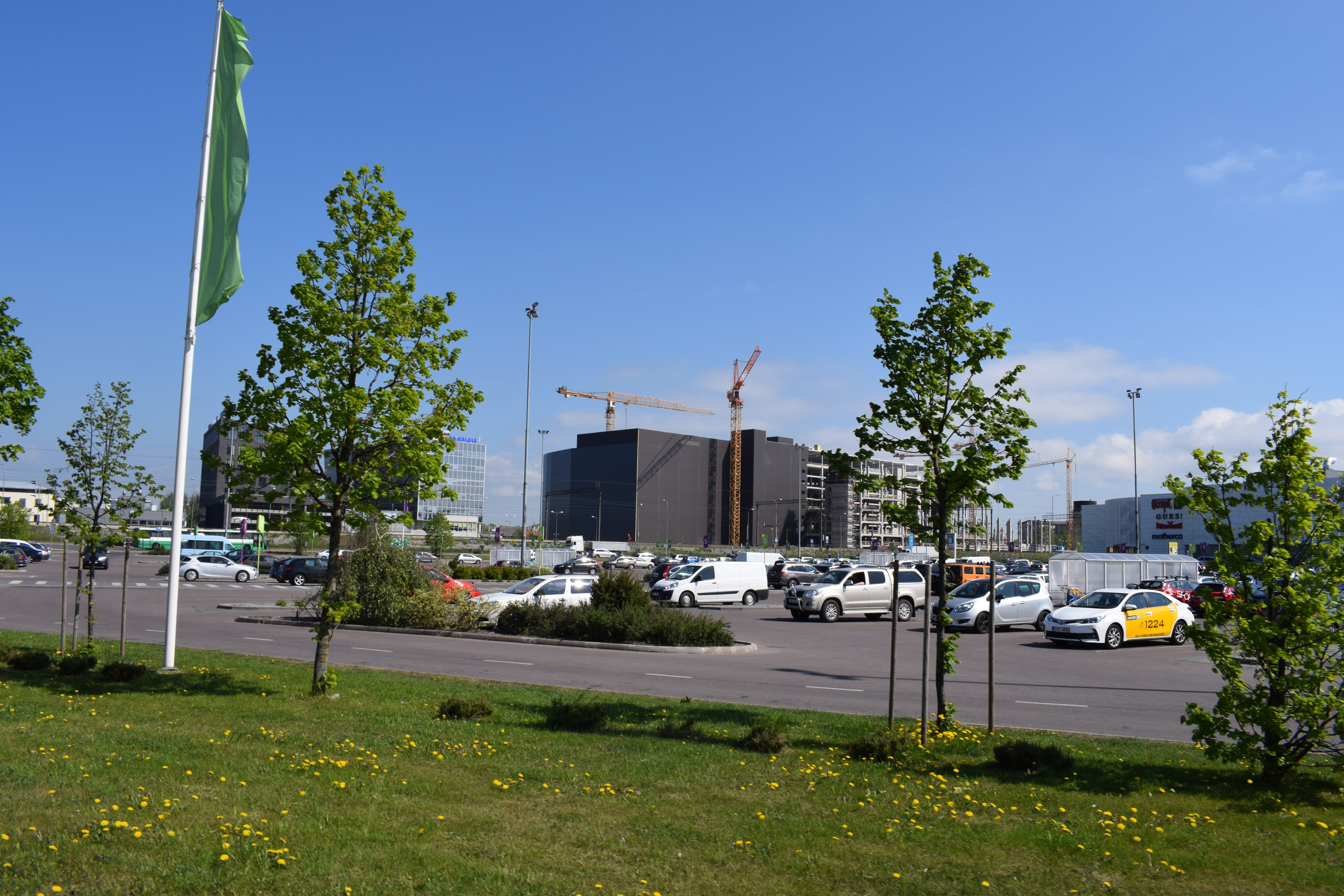 Tallinn